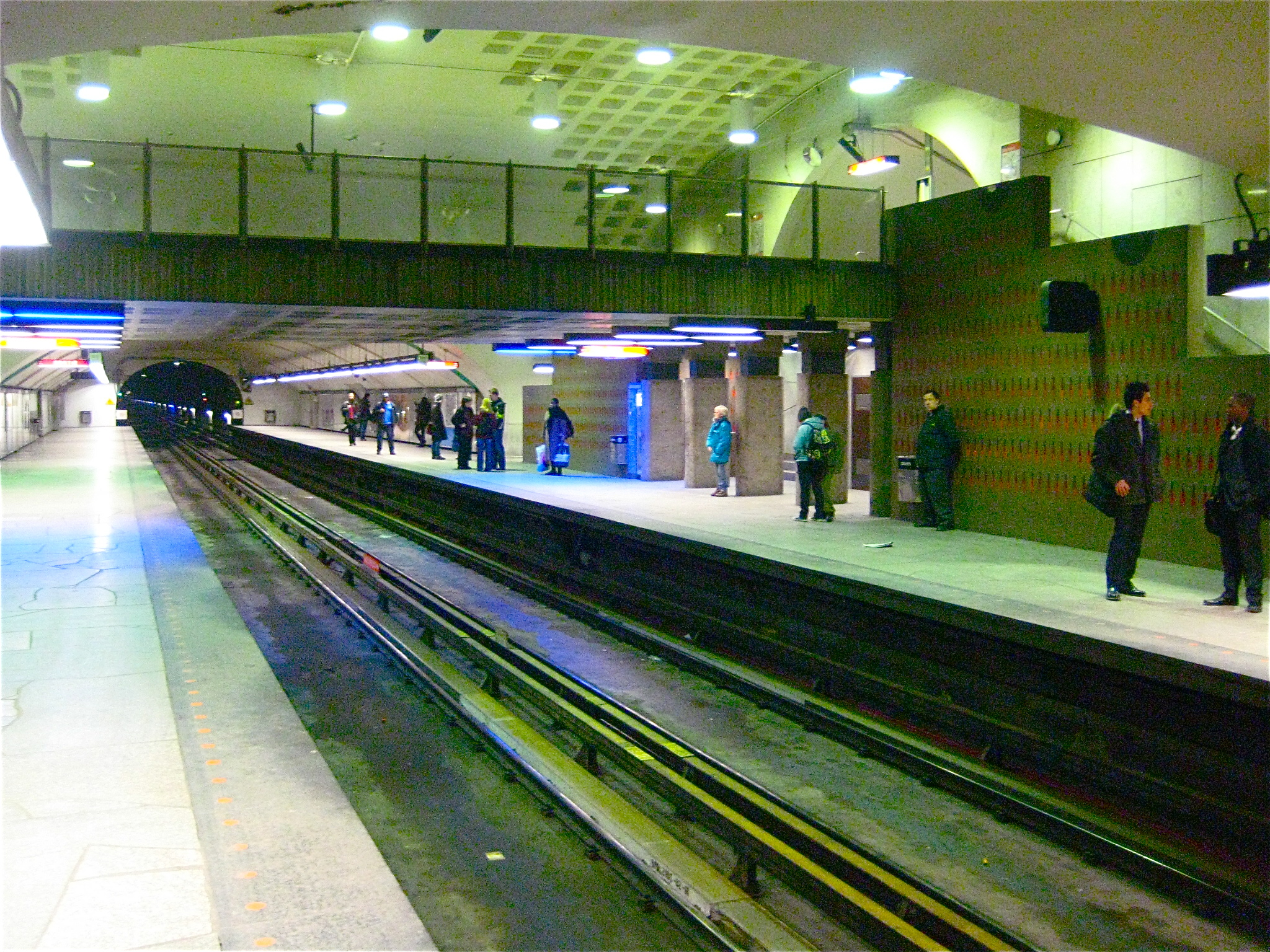 Beaubien Metro station platform.jpg